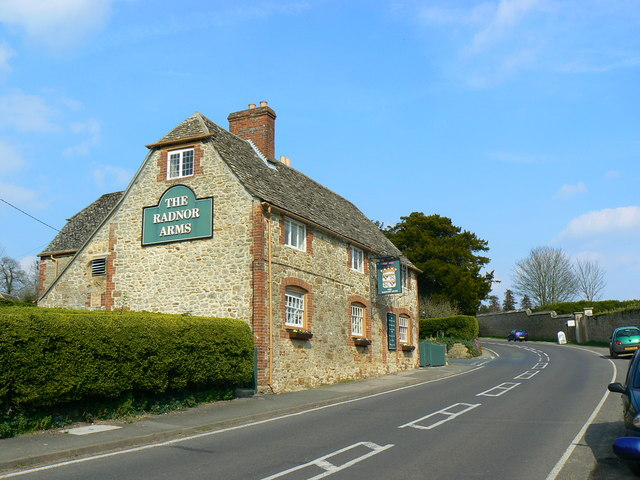 Radnor Arms public house, Coleshill, Oxfordshire (formerly Berkshire), seen from west-southwest